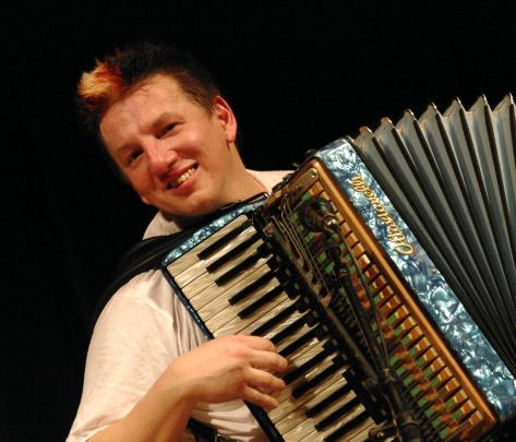 Ivan Hajek, Accordion